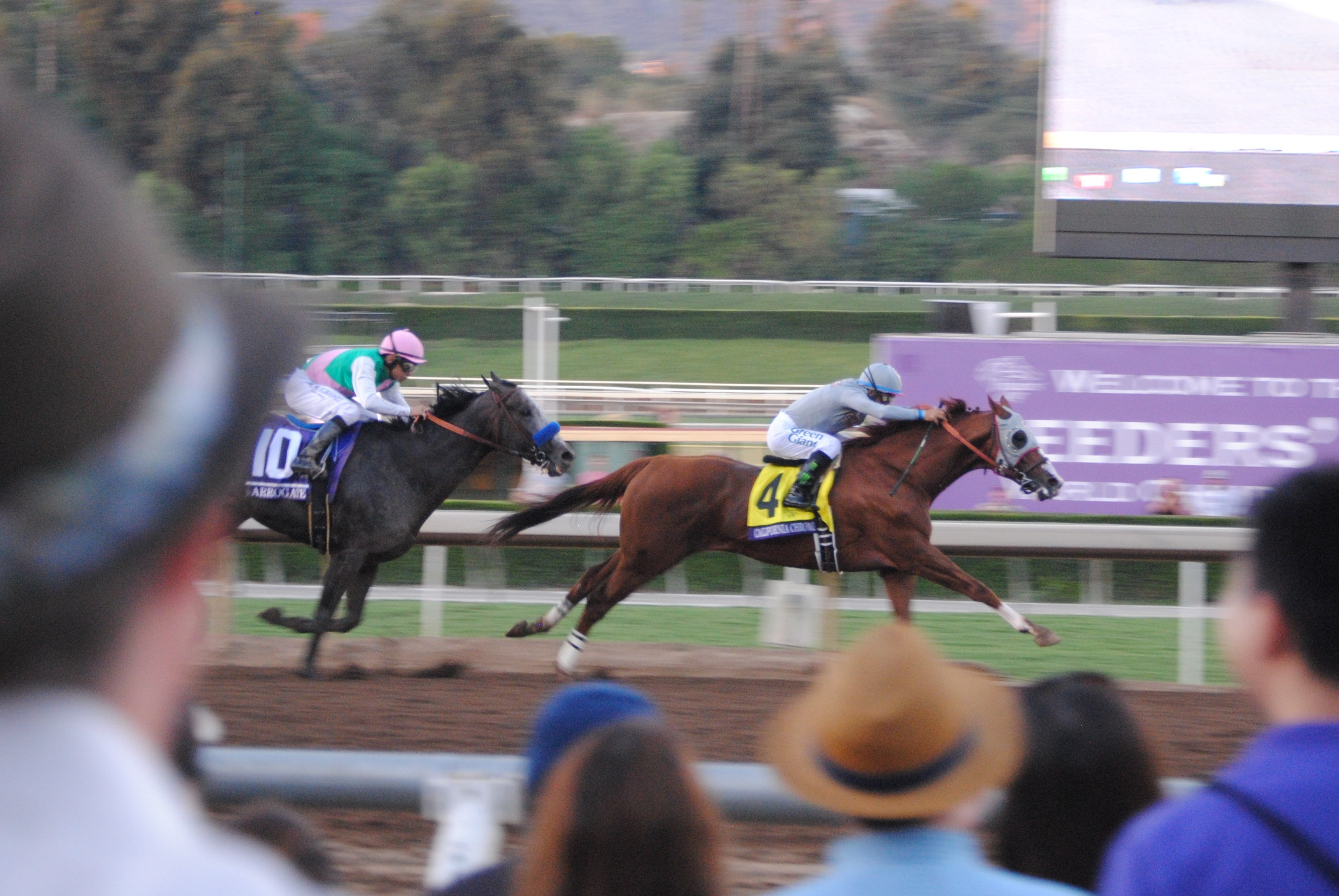 Breeders' Cup Classic 2016 - California Chrome's lead over arrogate continues to shrink